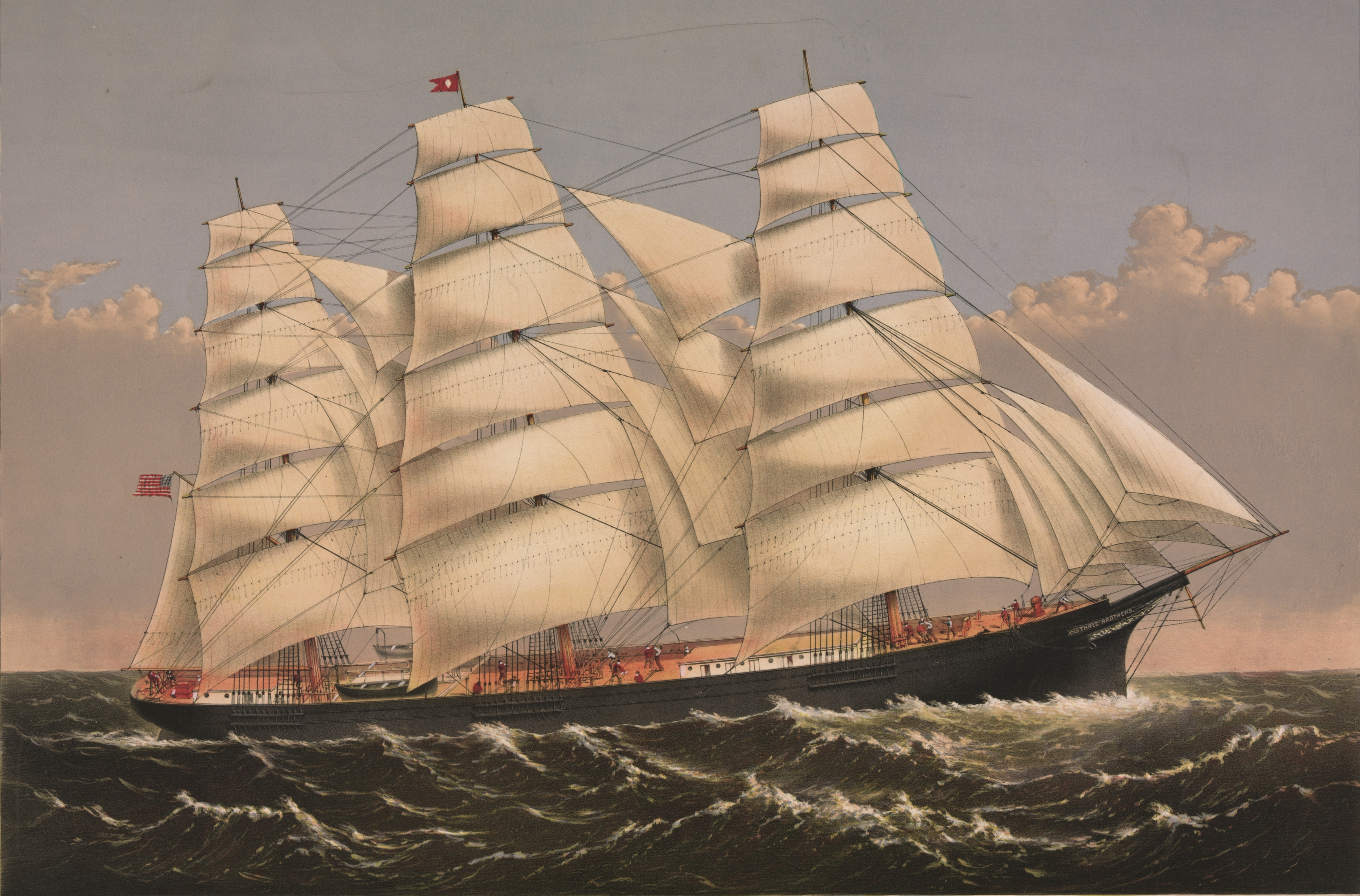 Starboard-side view of three-masted sailing ship, US flag at stern; workers and equipment on deck .Reproduction Number: LC-USZC2-3365Published: Currier & Ives, 1875.[New York]